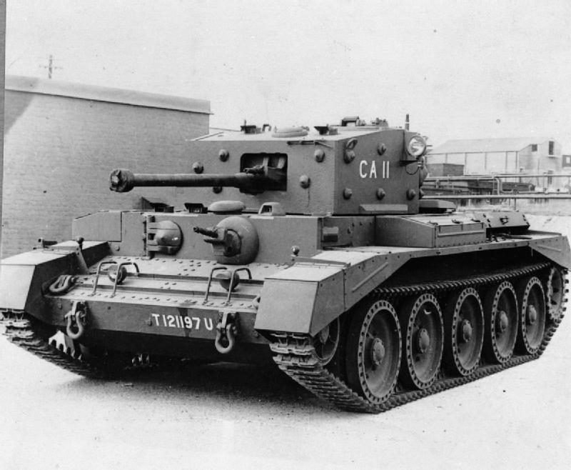 Tanks and Afvs of the British Army 1939-45 Cruiser Mk VIII Cromwell III (A27M)